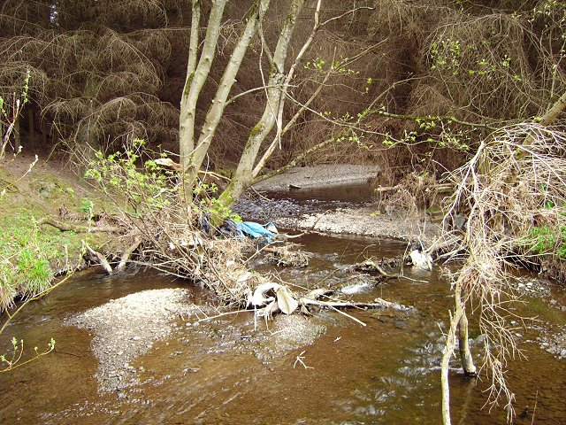 Eddleston Water. Sandwiched between the road and a disused railway. Looking upstream.